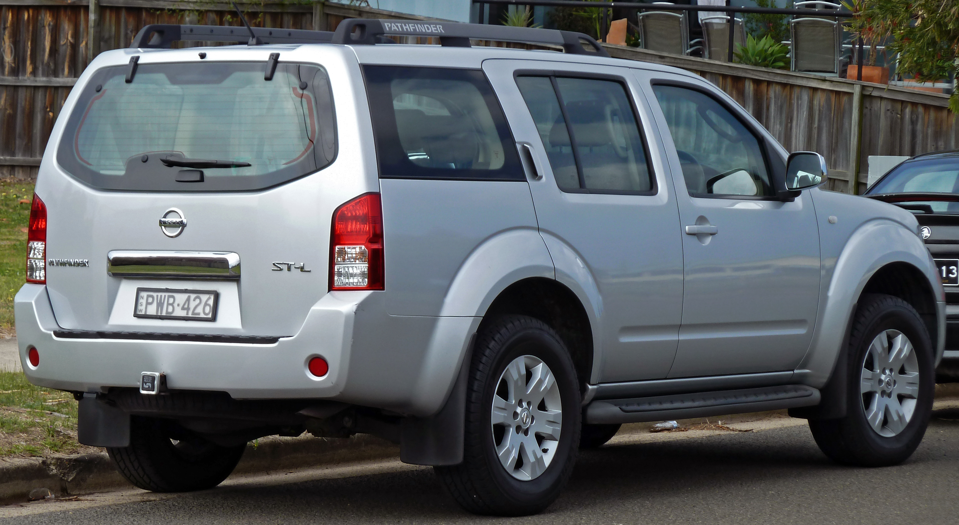 2005–2007 Nissan Pathfinder (R51) ST-L wagon. Photographed in Sans Souci, New South Wales, Australia.